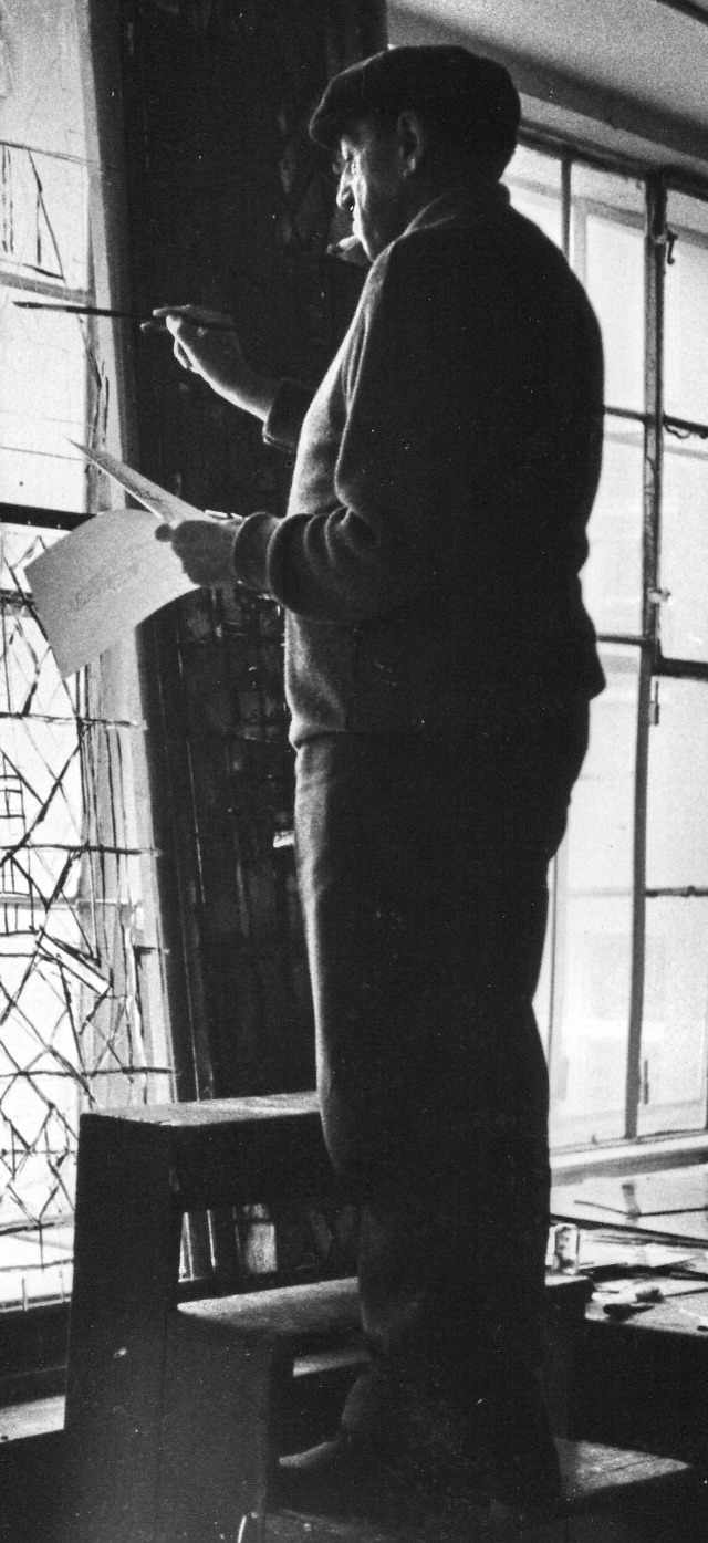 The artist Josef Oberberger in the stained glass studio in Munich (Germany)